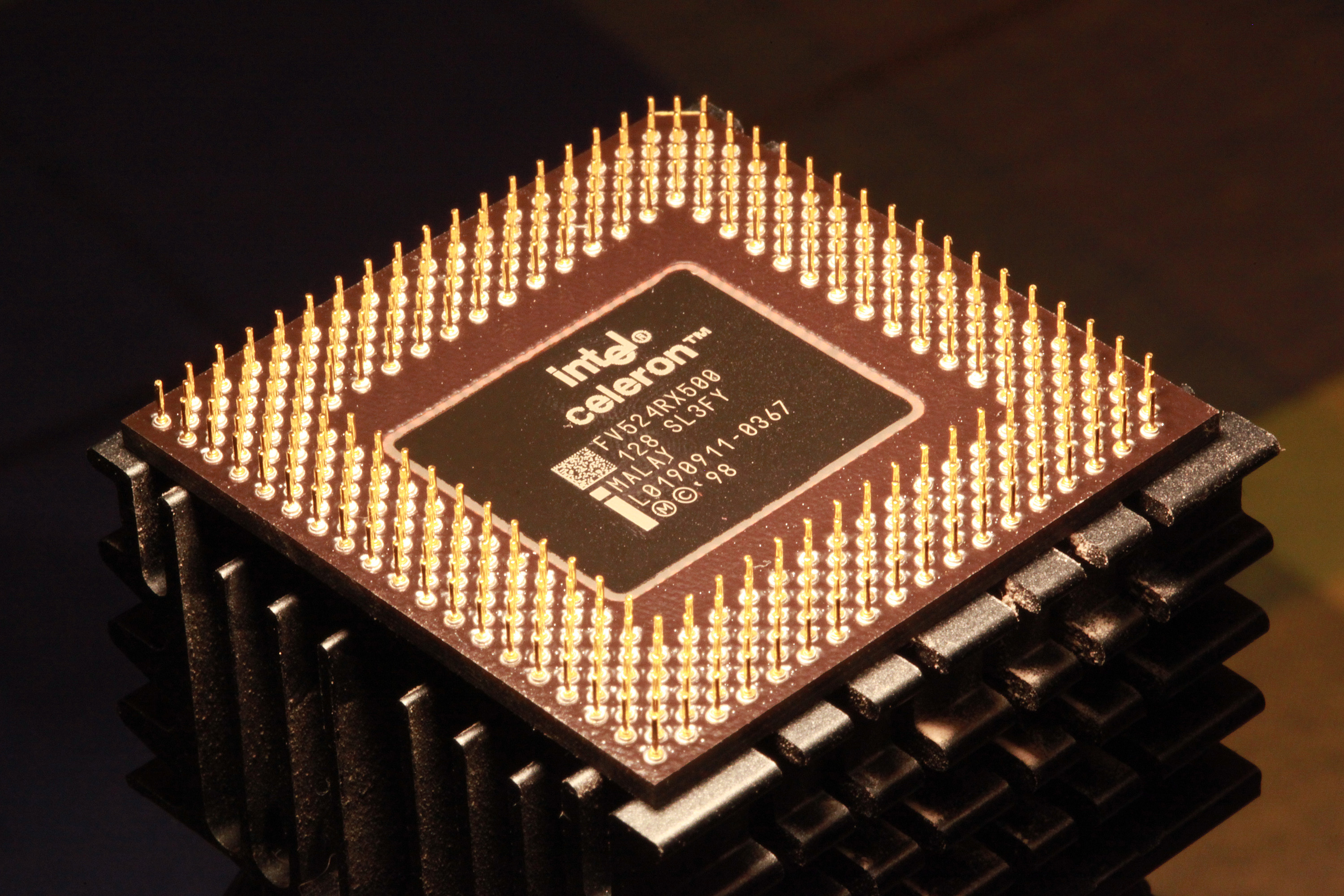 Intel Celeron 500